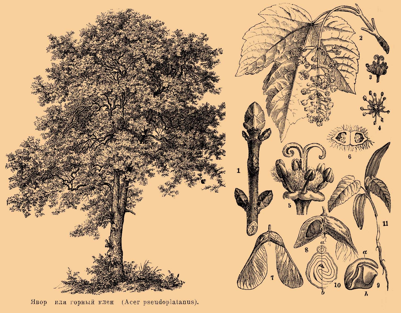 Acer pseudoplatanus. Illustration from Brockhaus and Efron Encyclopedic Dictionary (1890—1907)